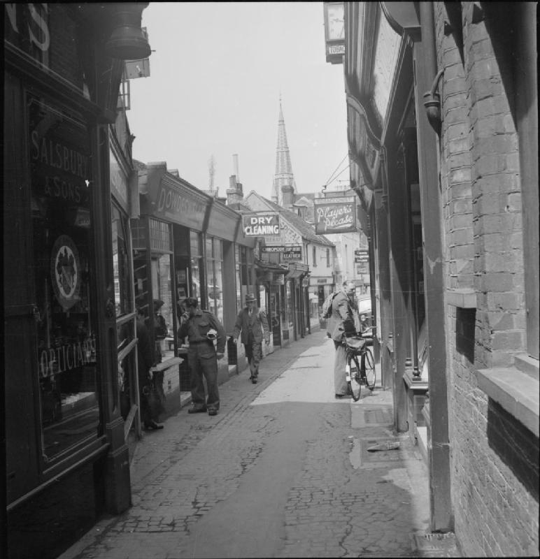 Guildford- Everyday Life in Wartime Guildford, Surrey, England, UK, 1945 A view down Swan Lane in Guildford. On the left of the street can be 'Salisbury and Son' opticians, 'Dowdeswells' stationers, a dry cleaner's and a chiropodist. On the right can be seen a tobacconist and a gent's hairdressing saloon.